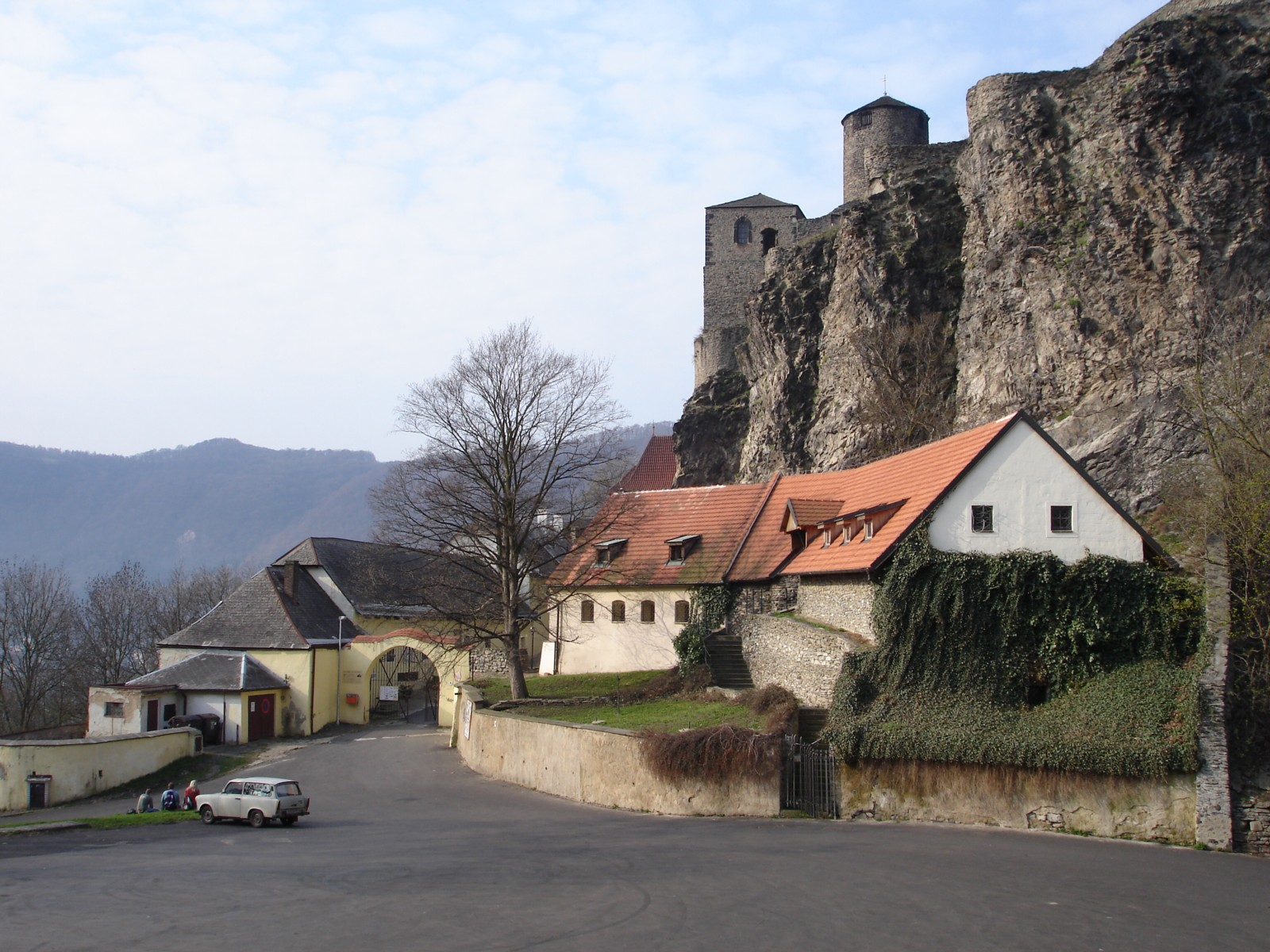 Burg Střekov, Czech Republic.